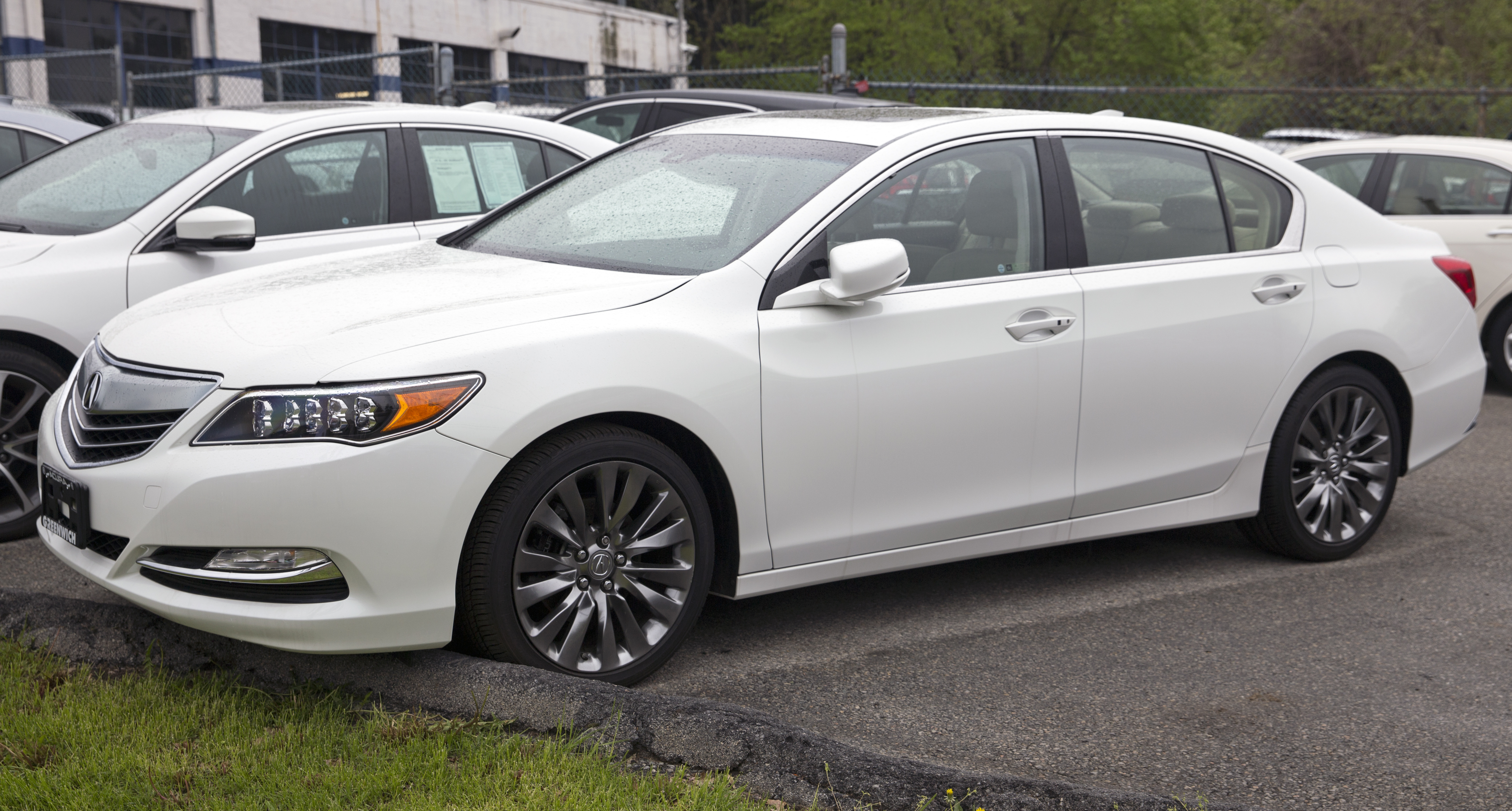 A 2017 Acura RLX Technology Package in Bellanova White Pearl with Seacoast interior. 2017 was the worst year for the already slow-selling RLX, with a mere 1237 deliveries in the US during the calendar year. Sales inched up somewhat after the facelift, but this car still makes no sense whatsoever.